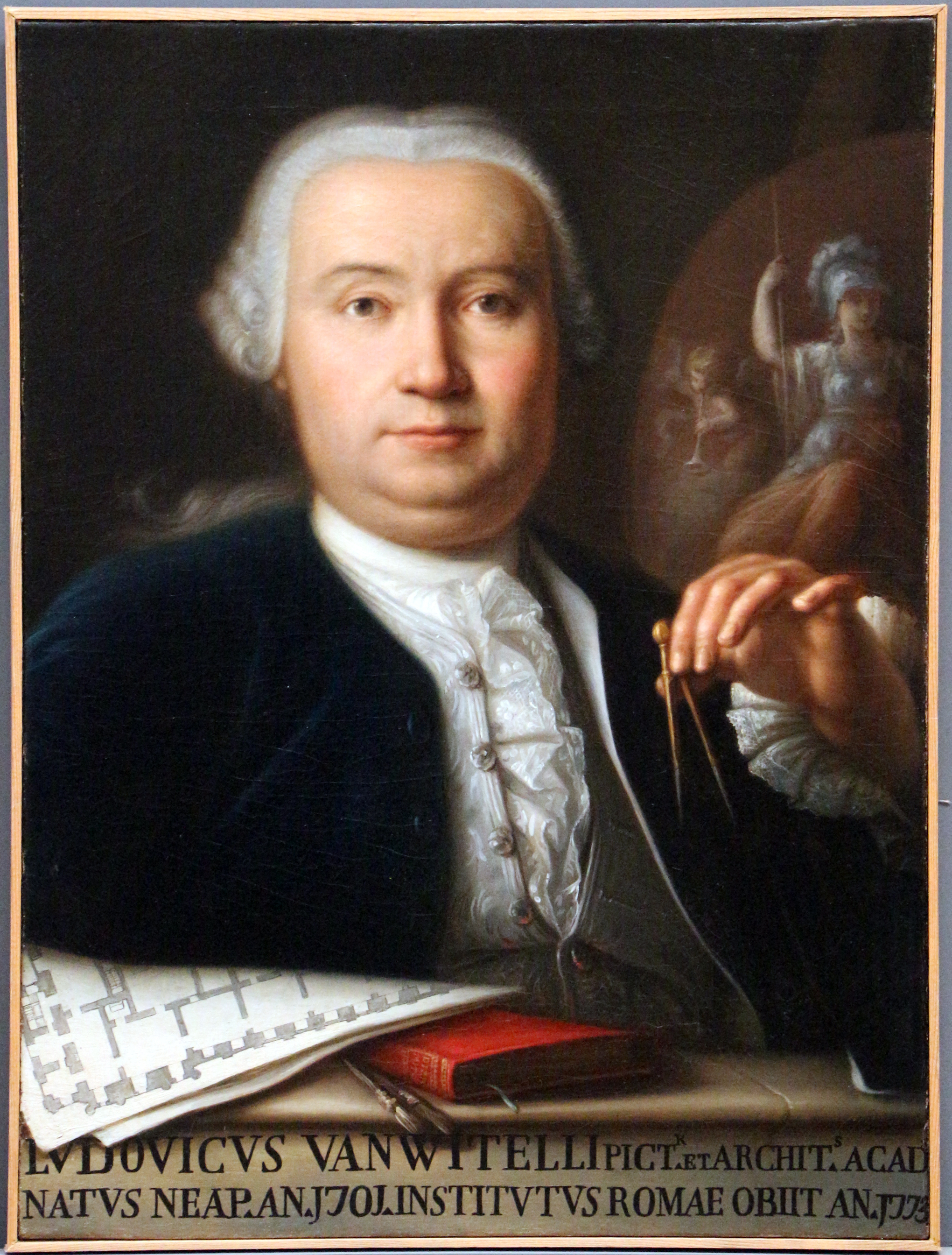 Accademia di San Luca - Gallery